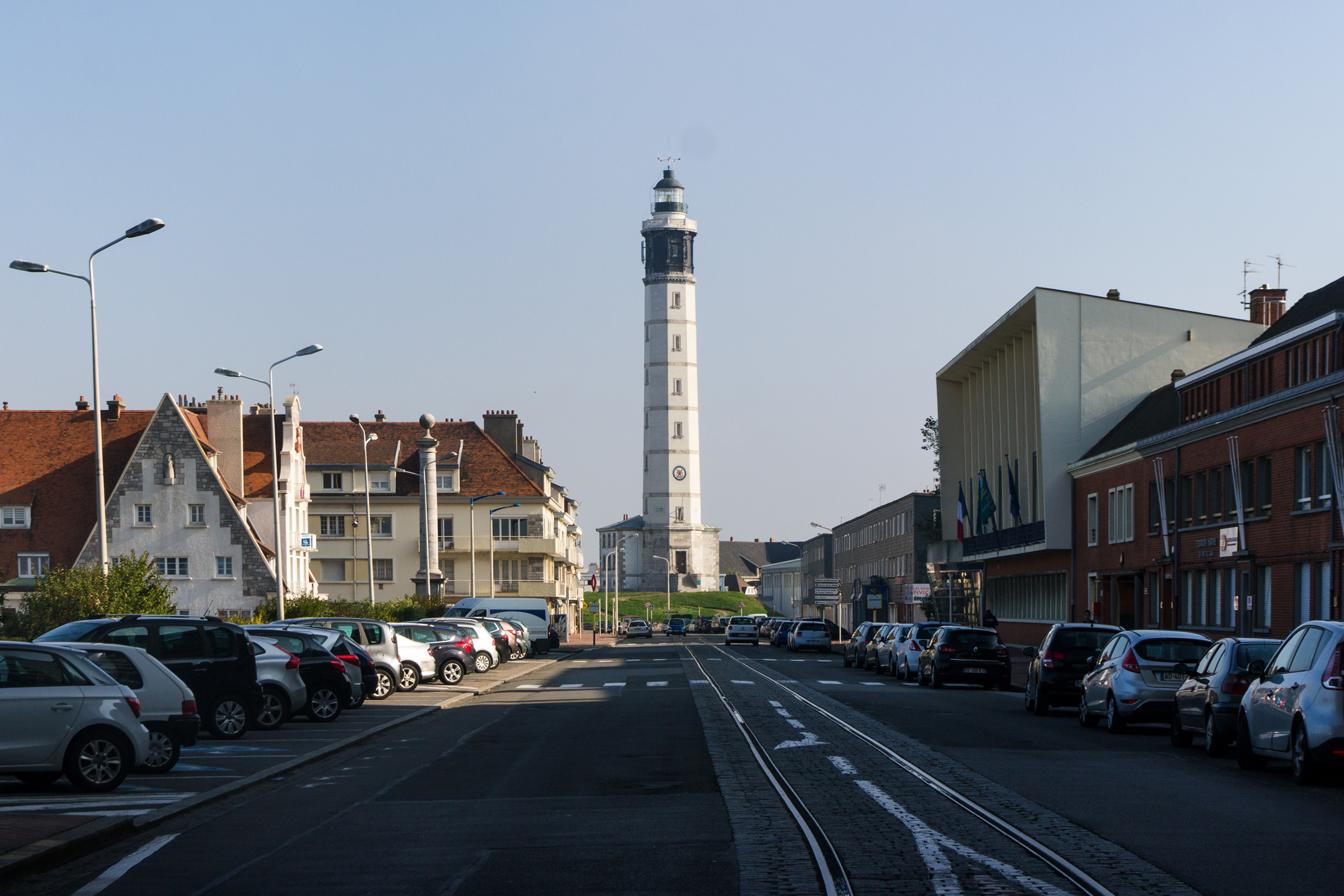 Phare de Calais, October, 2016